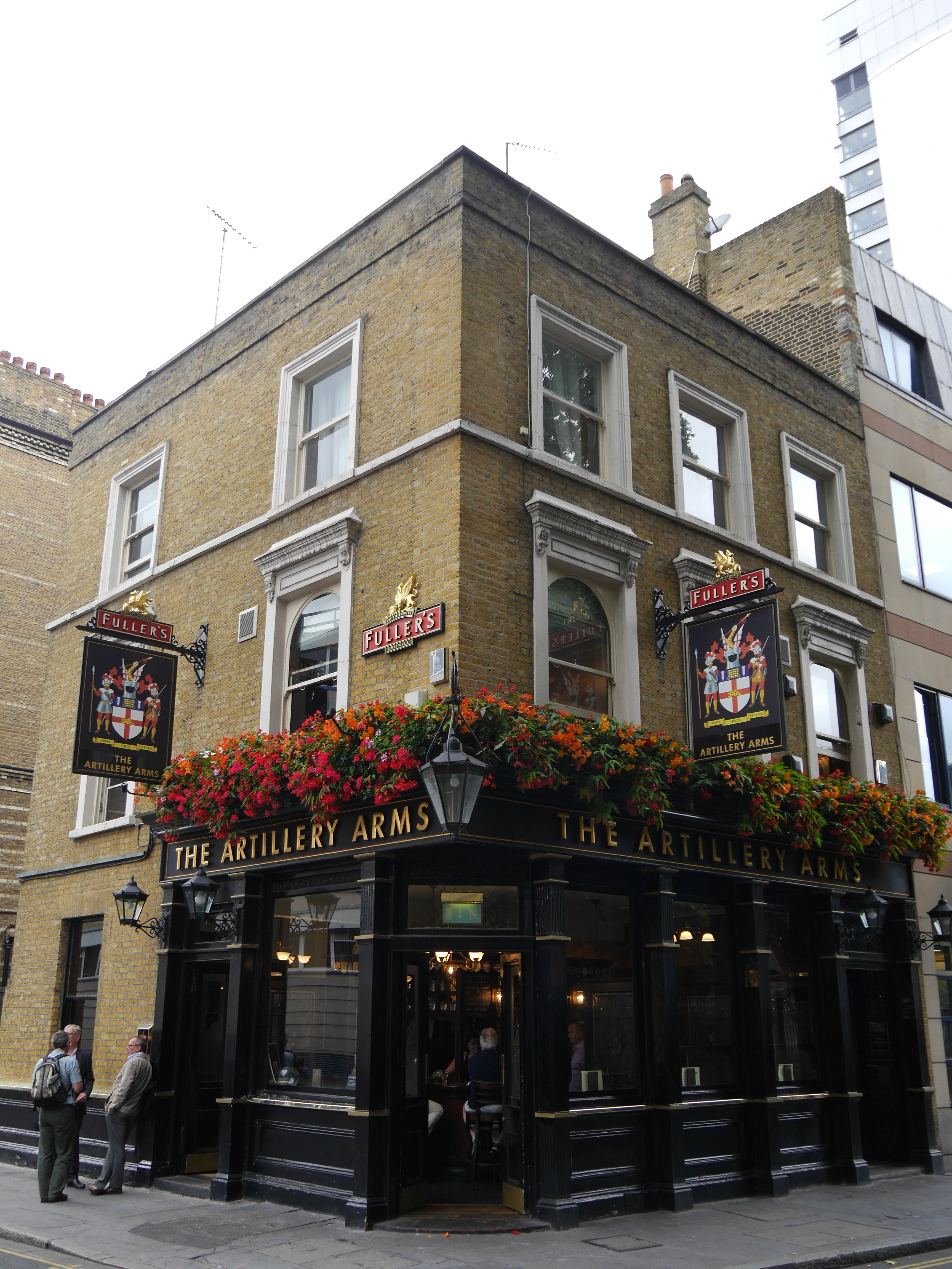 Artillery Arms, 102 Bunhill Row, London EC1Y 8ND